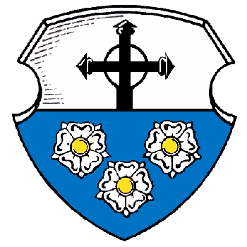 Coat of Arms of Kreuzwertheim